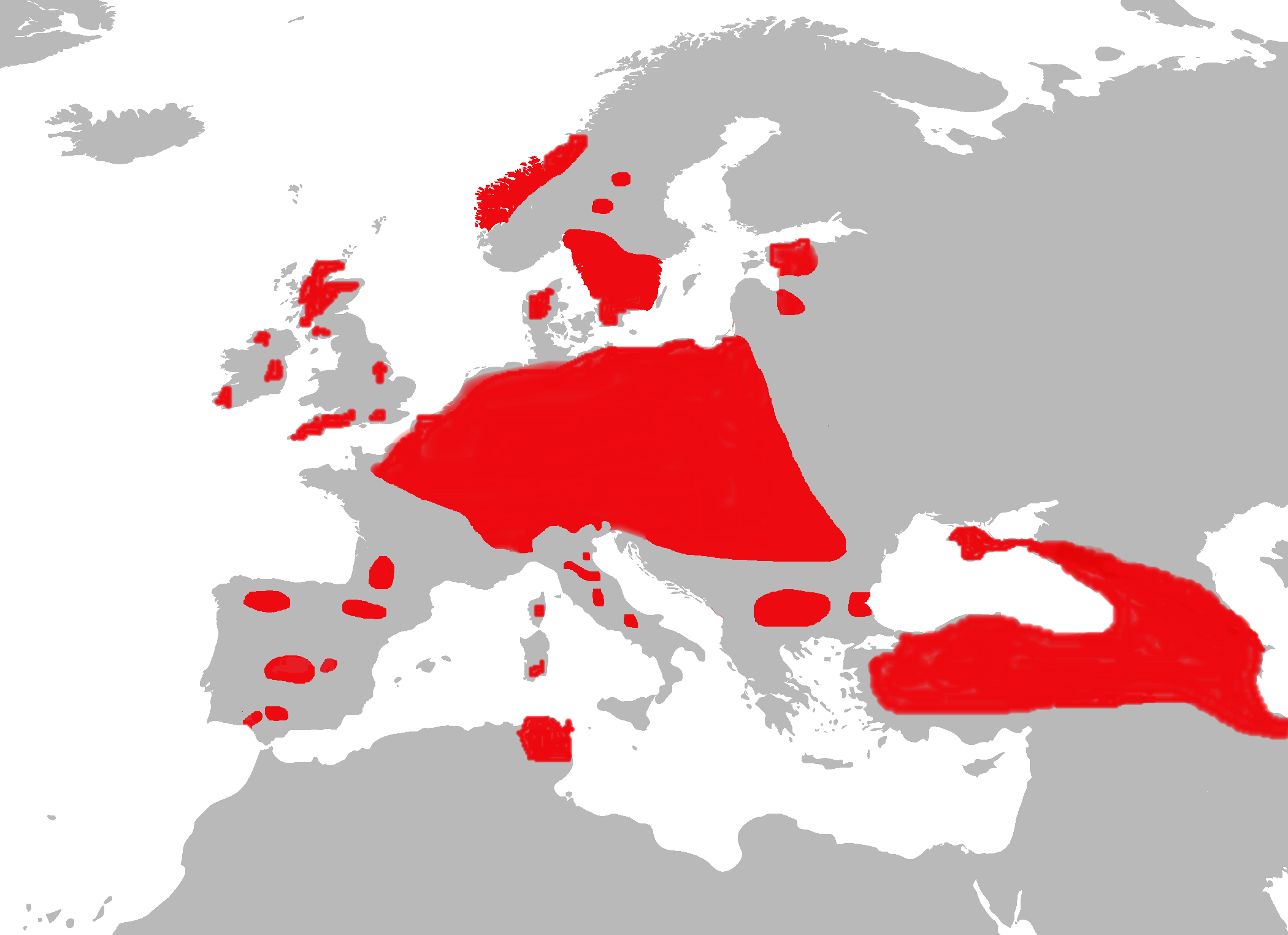 Range Map for Cervus elaphus (Red Deer from blank map off commons at Image:BlankMap-Europe-v3.png